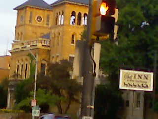 Front of the Wise County Courthouse, located along State Route 640 in Wise, Virginia, United States. Built in 1896, the courthouse is listed on the National Register of Historic Places.